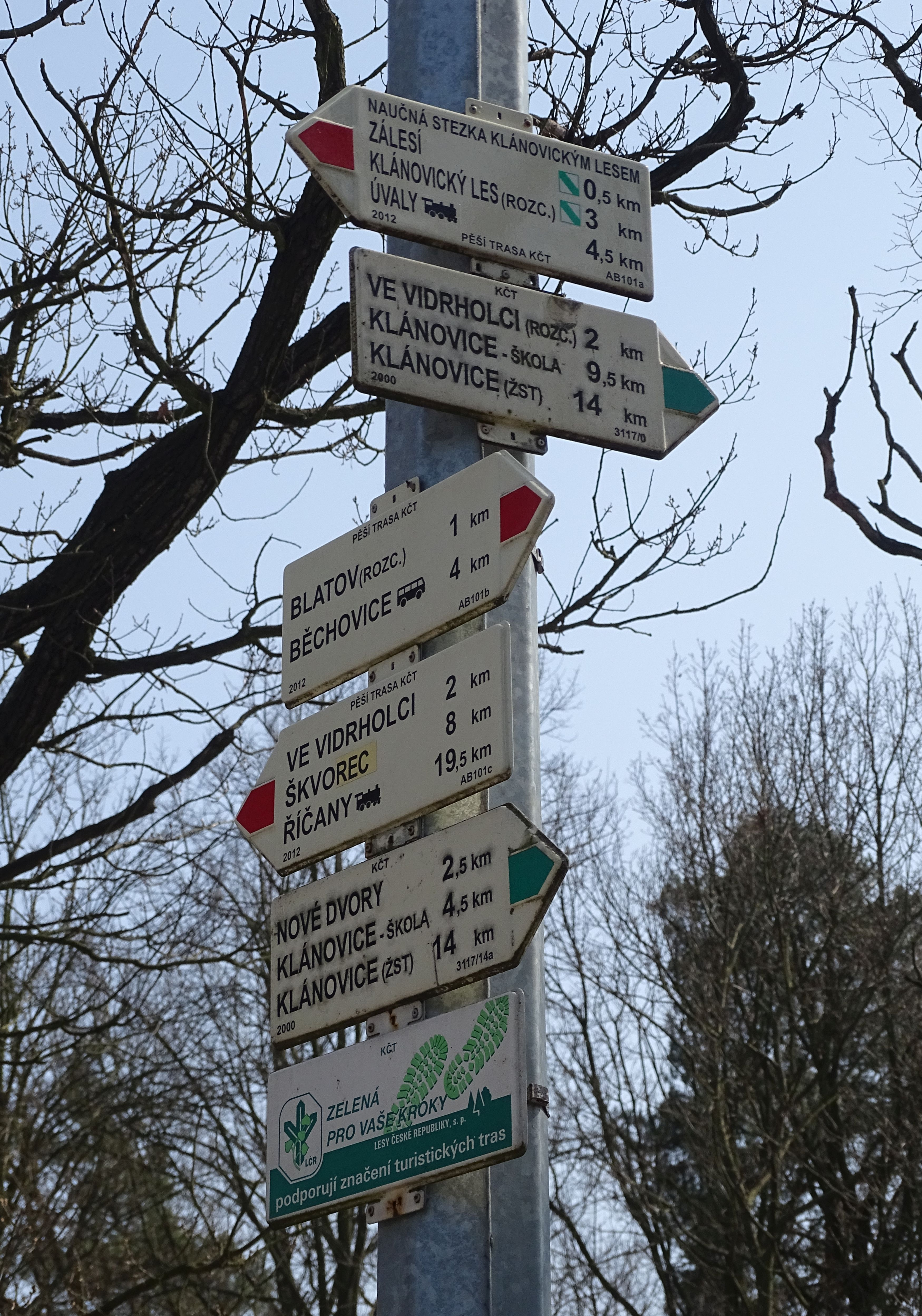 Prague-Újezd nad Lesy, Czech Republic. A hiking fingerpost near the train stop Praha-Klánovice.